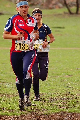 Simona Karochova (CZE) Junior World Orienteering Championships 2007 -- Relay